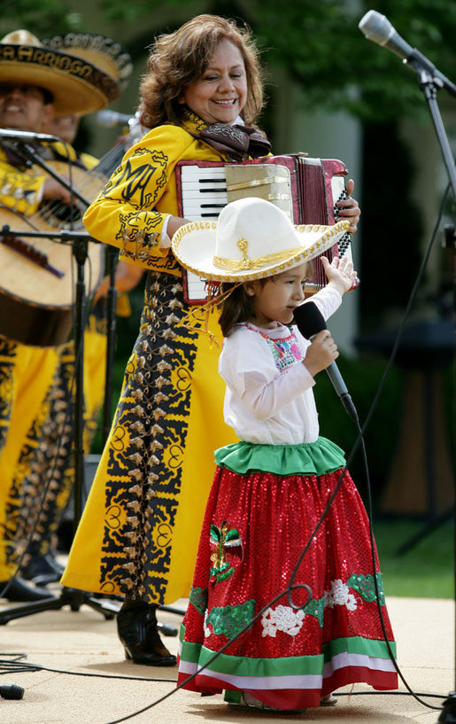 Performers at the US White House celebration of Cinco de Mayo May 4, 2007